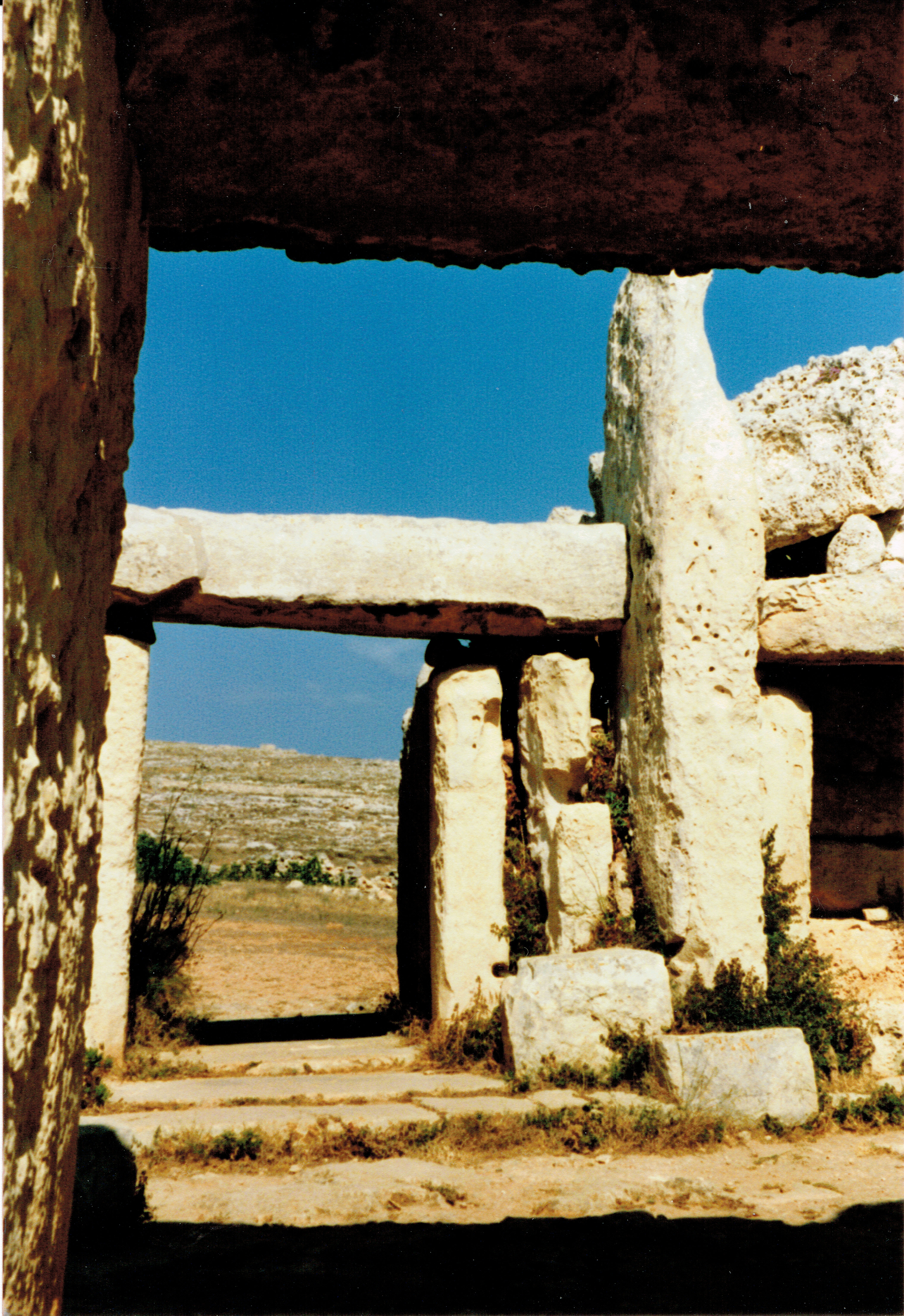 The megalithic temple of Mnajdra, detail (Malta)